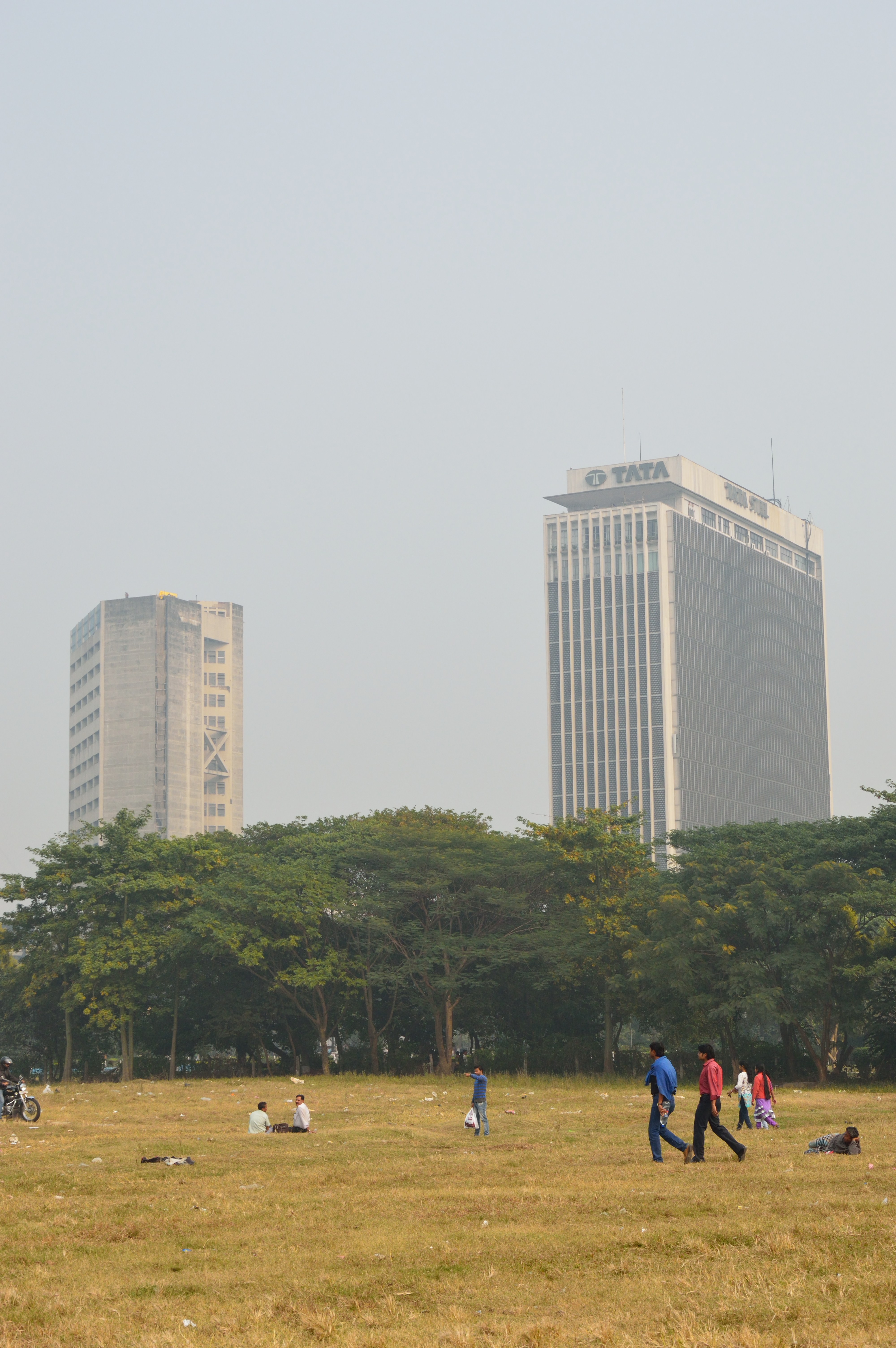 Photographed in Kolkata.